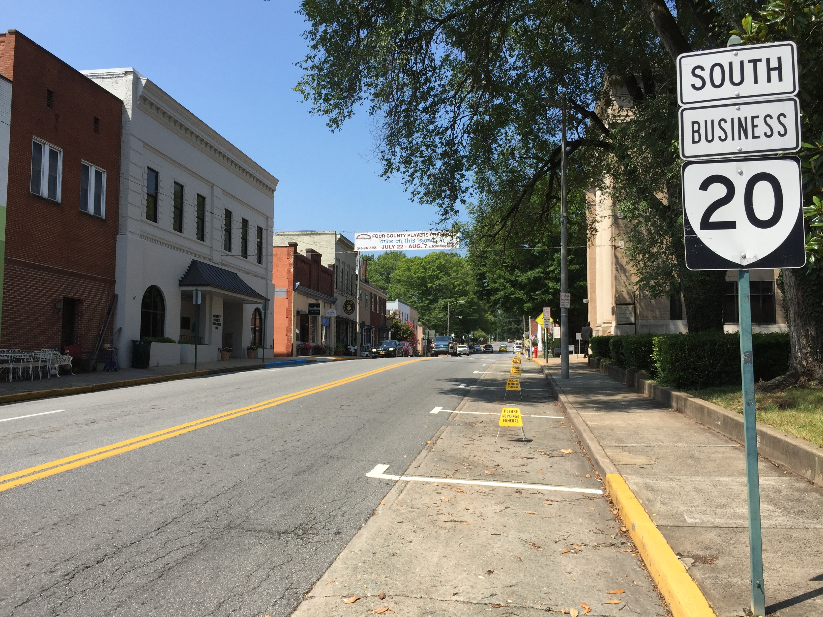 View south along Virginia State Route 20 Business (Main Street) just south of U.S. Route 15 (Madison Road) in Orange, Orange County, Virginia